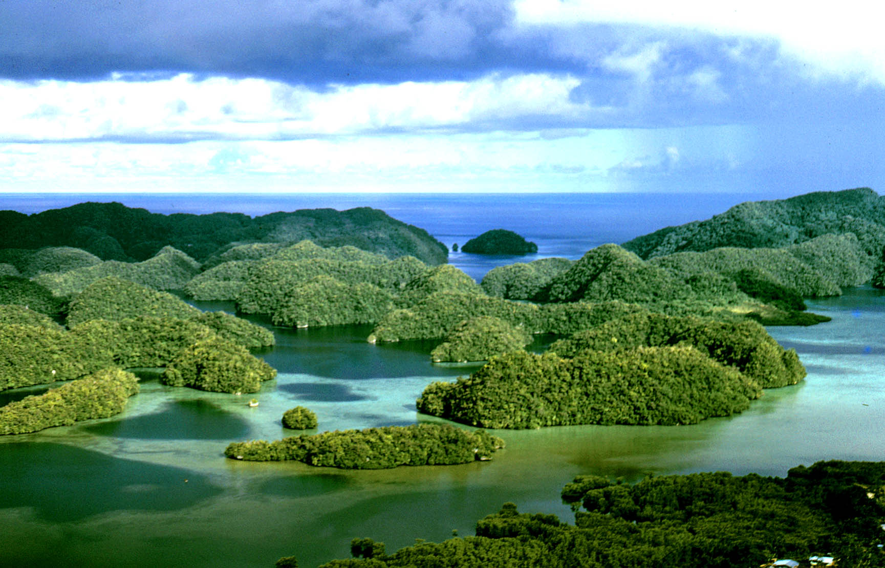 Aerial view of uplifted limestone islands in Palau. Image by NOAA.[1].